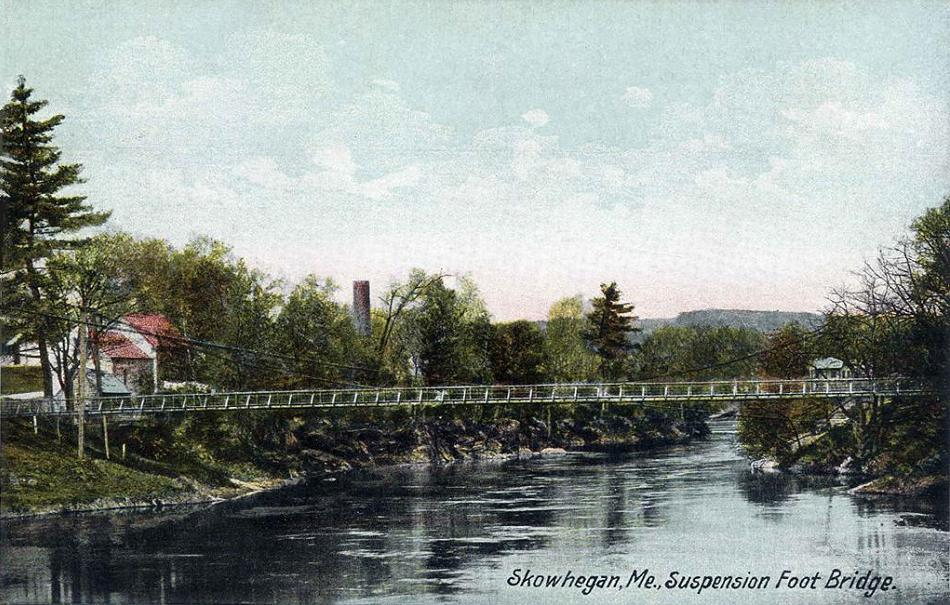 Suspension Footbridge, Skowhegan, ME; from a c. 1908 postcard published by the Hugh C. Leighton Company of Portland, Maine.